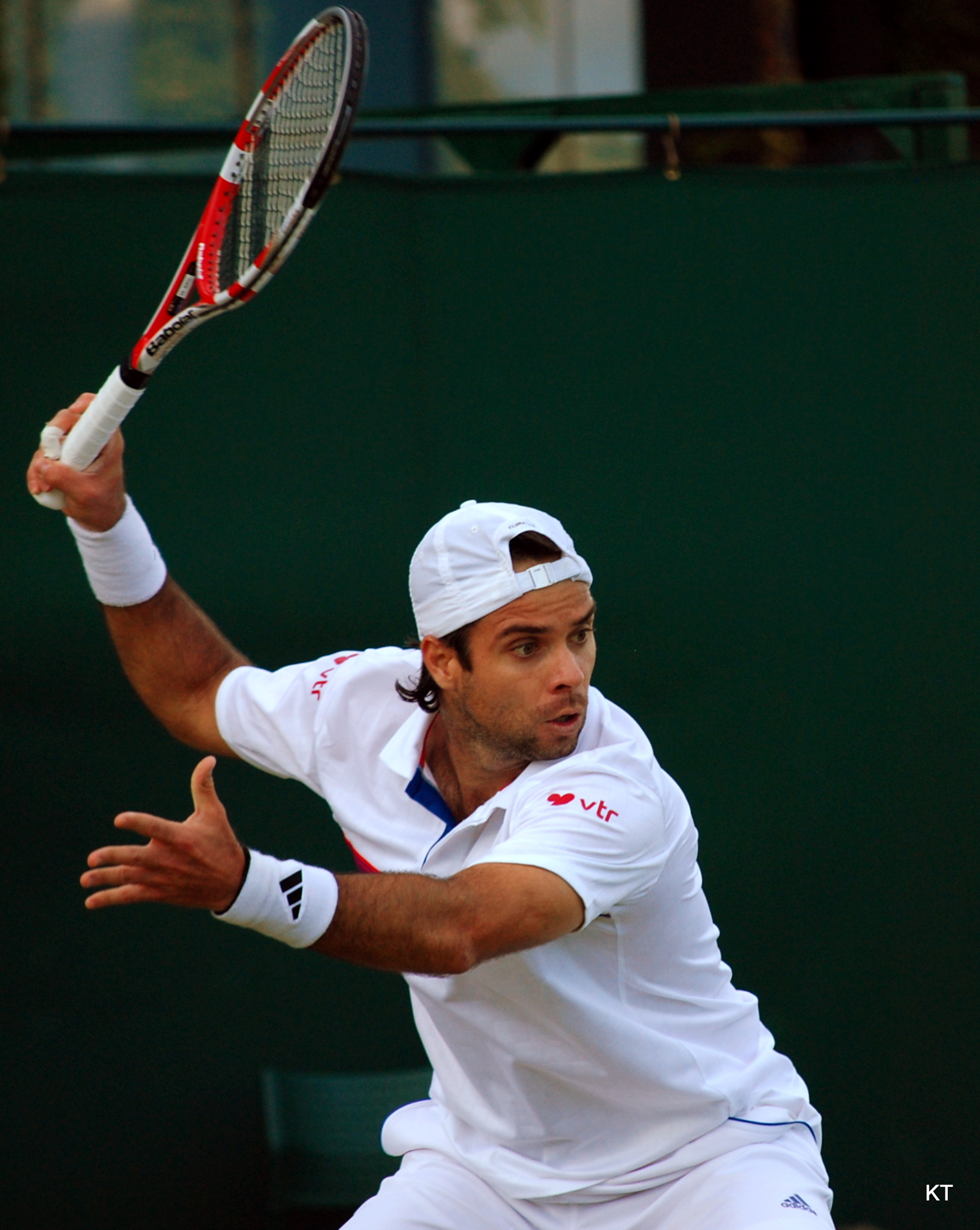 Fernando Gonzalez about to unleash his trademark forehand during his first round match with Alexandr Dolgopolov. Gonzalez won 6-3, 6-7, 7-6, 6-4. Day 2 of Wimbledon 2011.